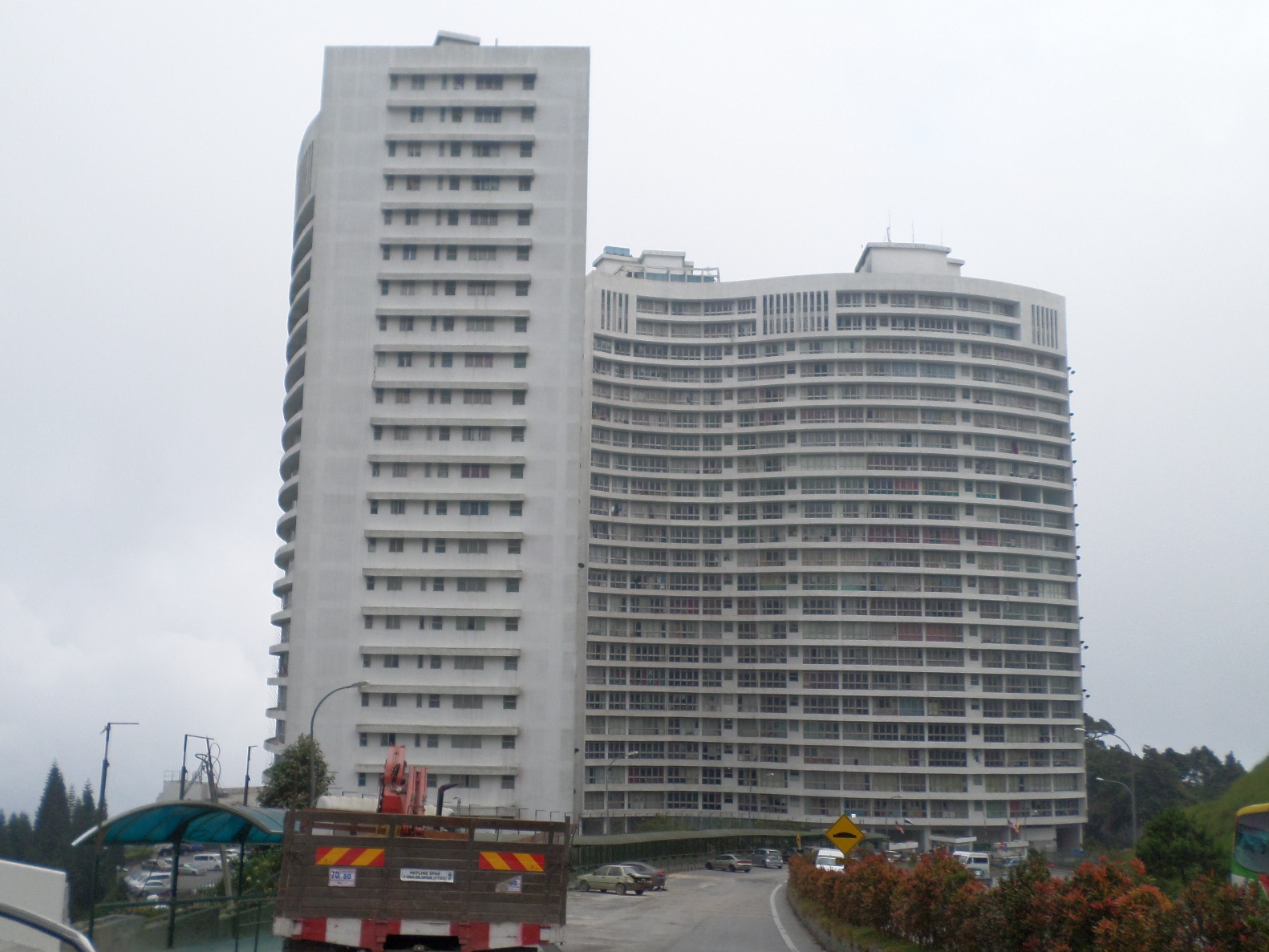 Ria Apartments, Genting Highlands, Bentong, Pahang, Malaysia